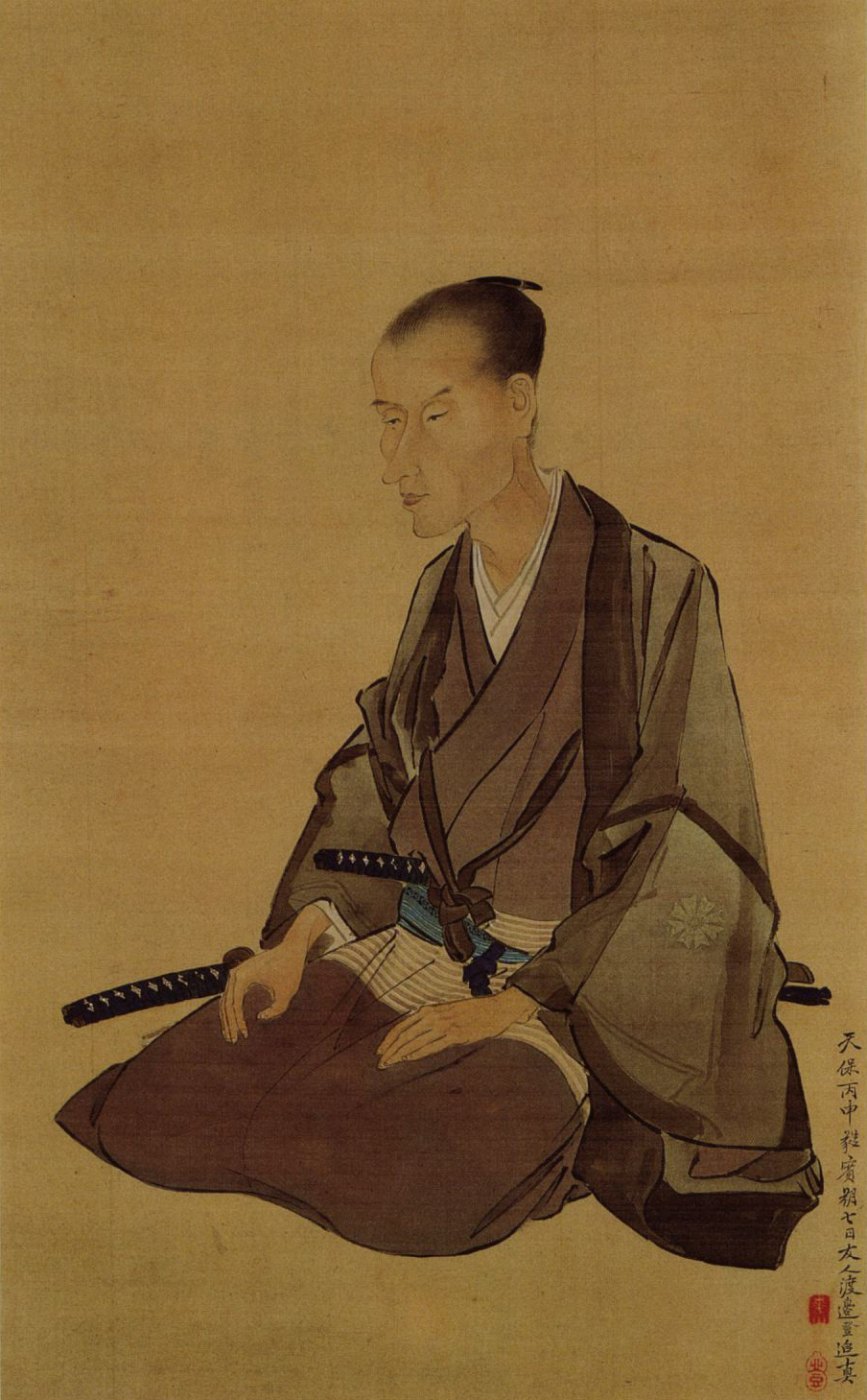 A portrait of Takizawa Kinrei 滝沢琴嶺像